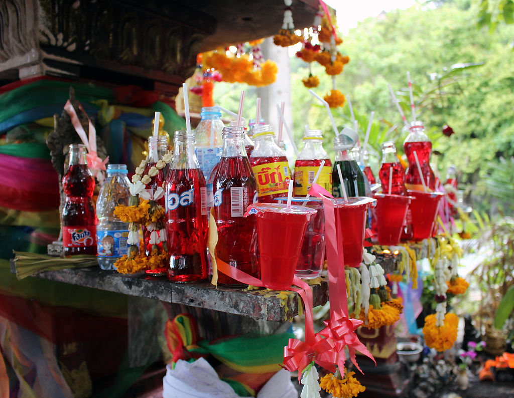 Offerings of red drinks, both Red Fanta, and local red "est", and others, at front of Spirit House. (Chaweng Noi viewpoint, Koh Samui, Thailand, 2016)